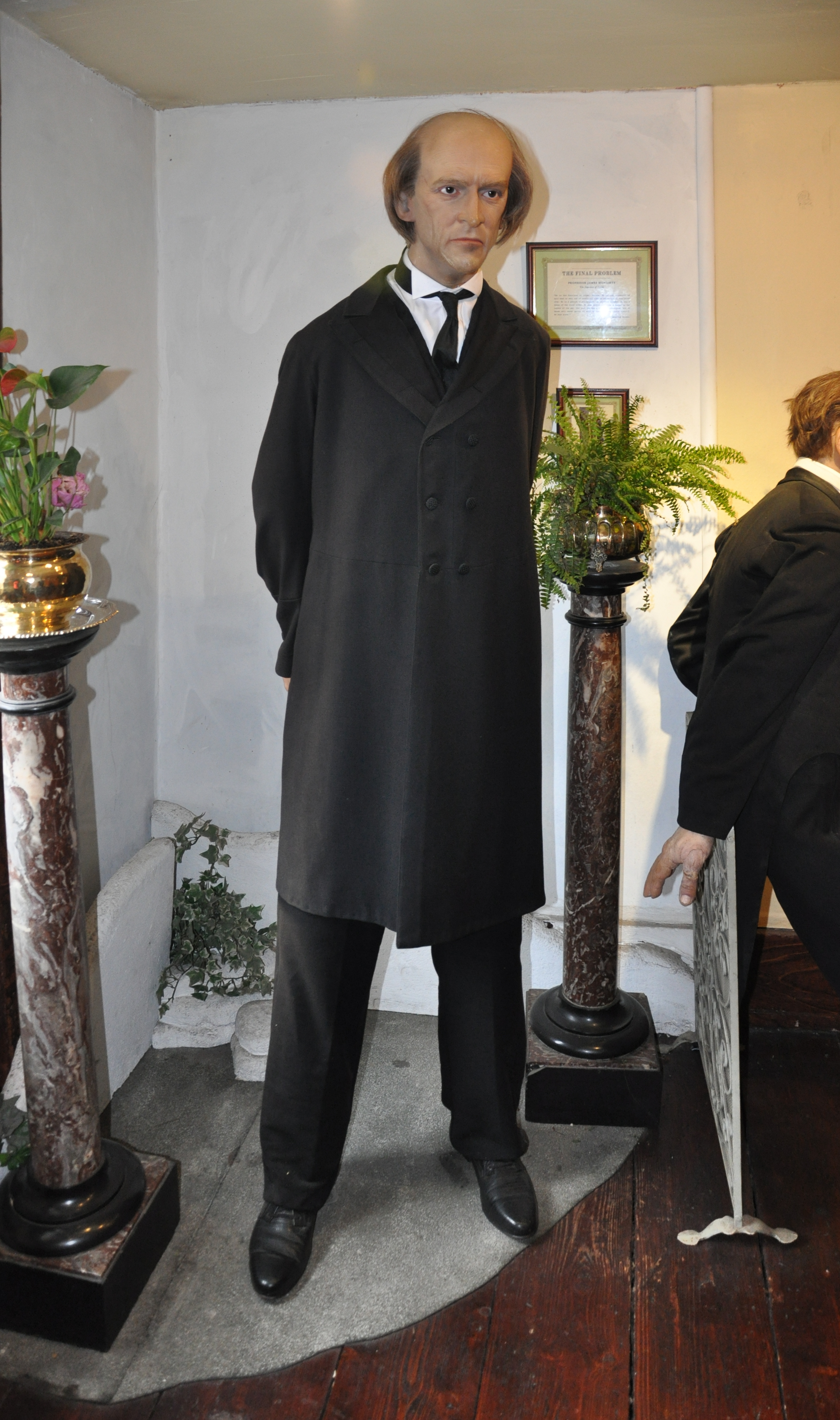 Sherlock Holmes Museum, Baker Street, London Figure of Moriarty, illustrating "The Adventure of the Final Problem"